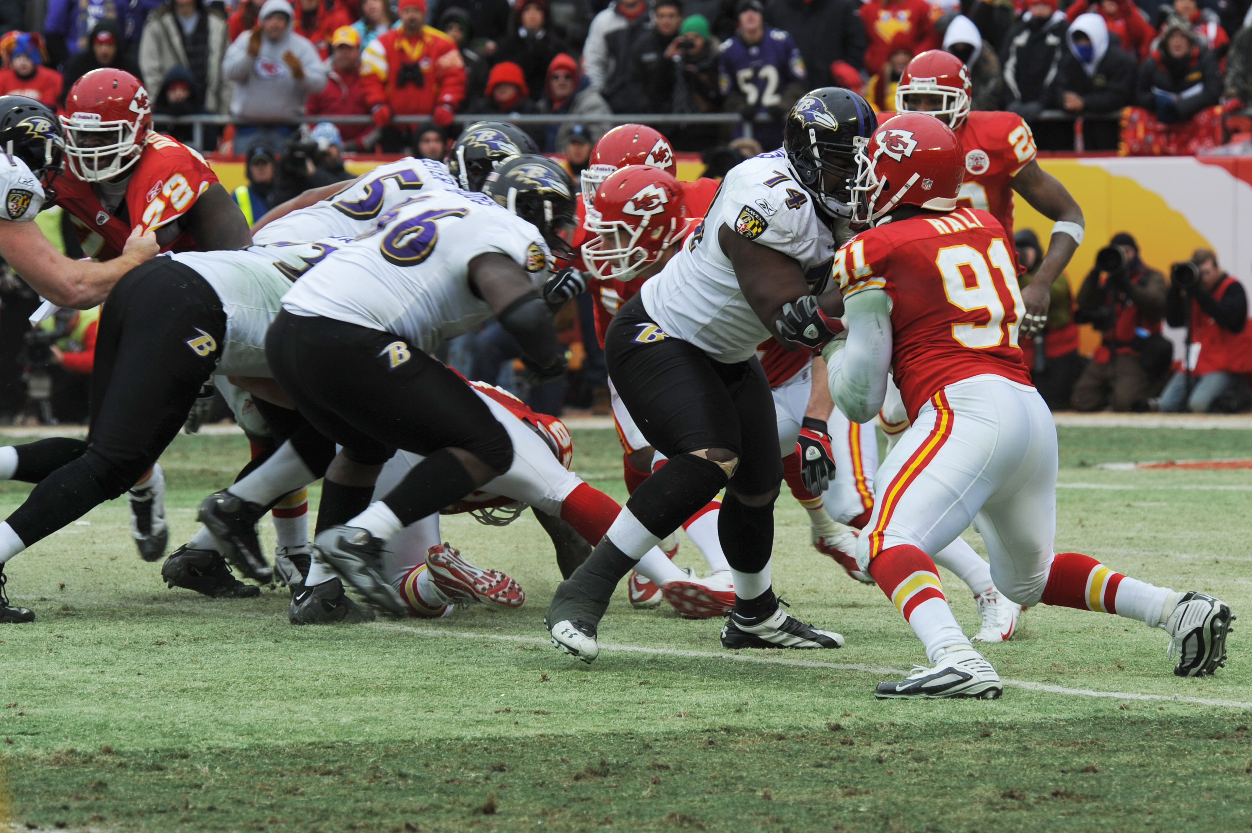 Baltimore Ravens, offensive tackle, Michael Oher, blocks Kansas City Chiefs linebacker, Tamba Hali, during the Kansas City Chiefs wild card game play-off, January 9, 2011.